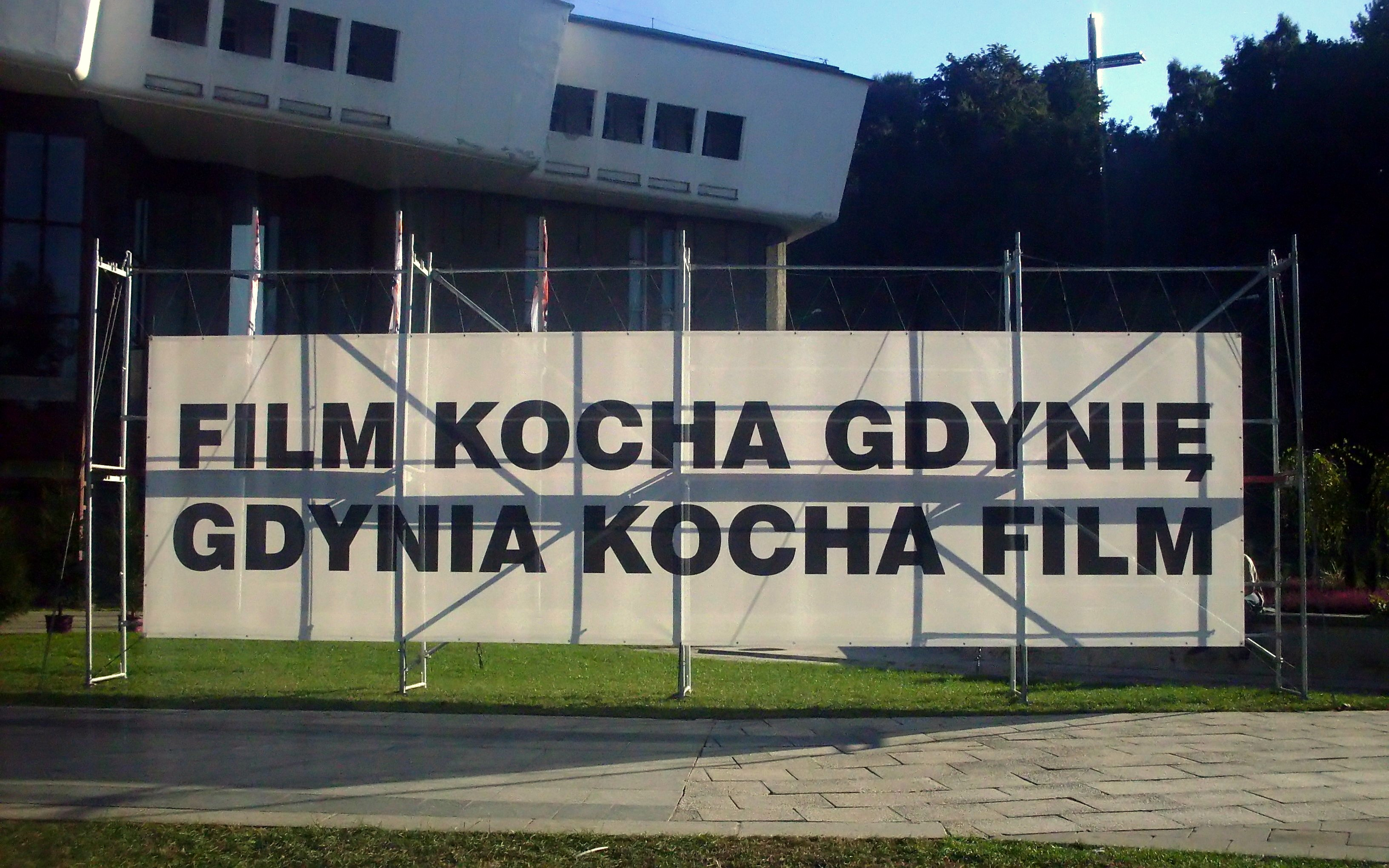 Slogan of XXXIV Polish Film Festival in Gdynia 2009. Translation: "The film loves Gdynia. Gdynia loves the film". This harks back to the fact that in Gdynia one shoot a film scenes of many Polish films from the beginning of the existence of Polish film production. This photo was performed one day after the end of the entertainment.